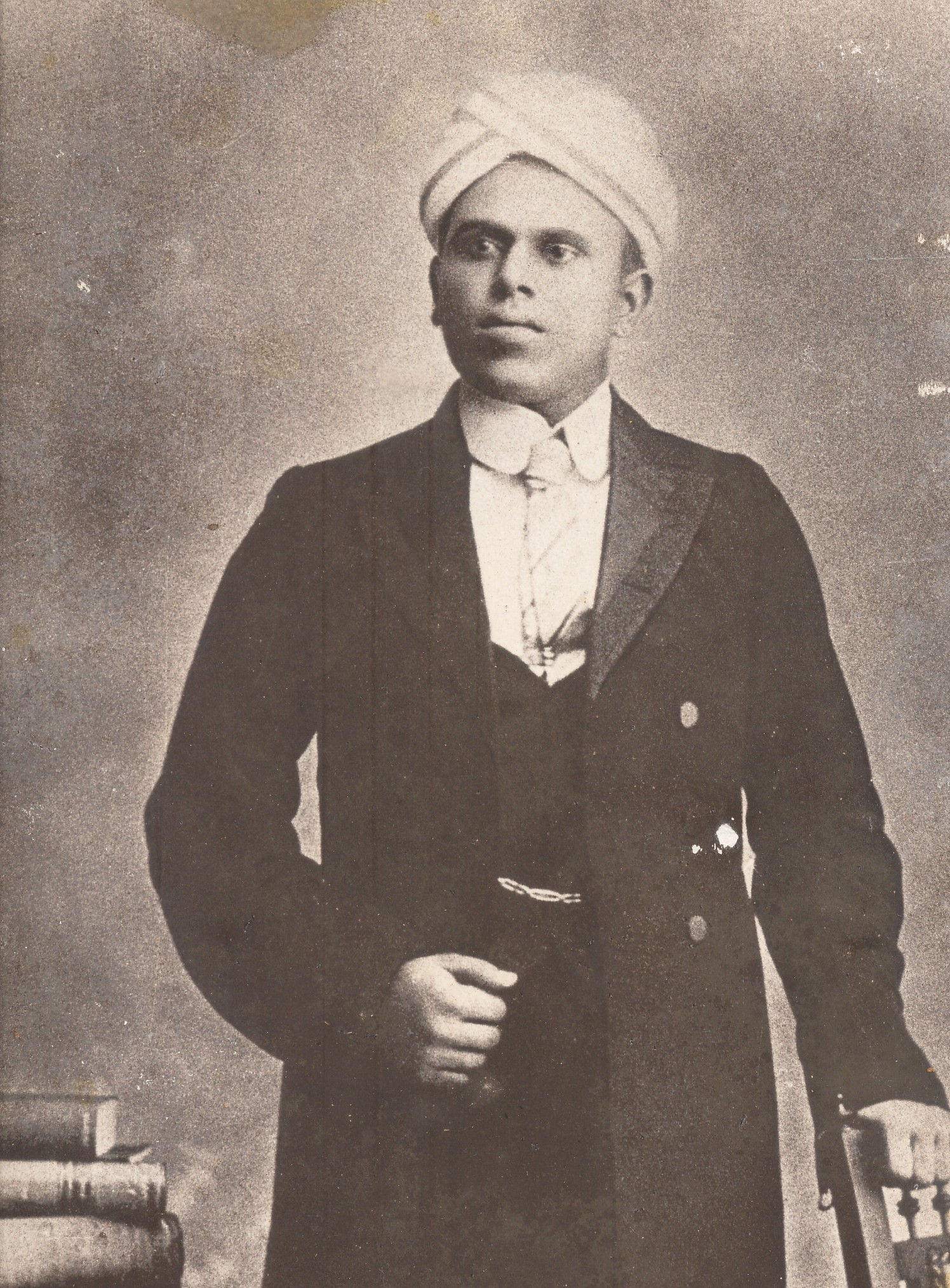 A R Pillai, Indian journalist, patriot and businessman. Photo taken at his home around his wedding